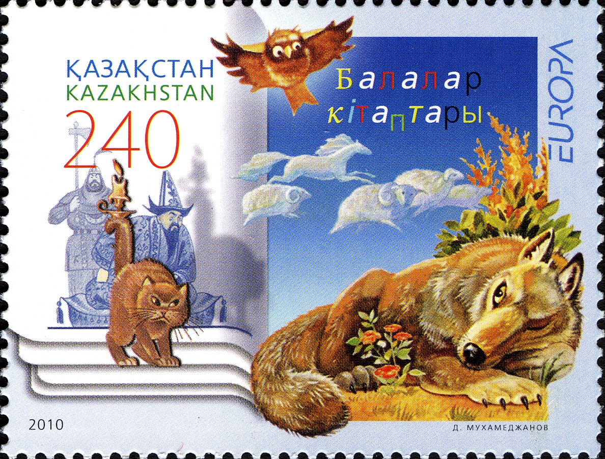 Stamps of Kazakhstan